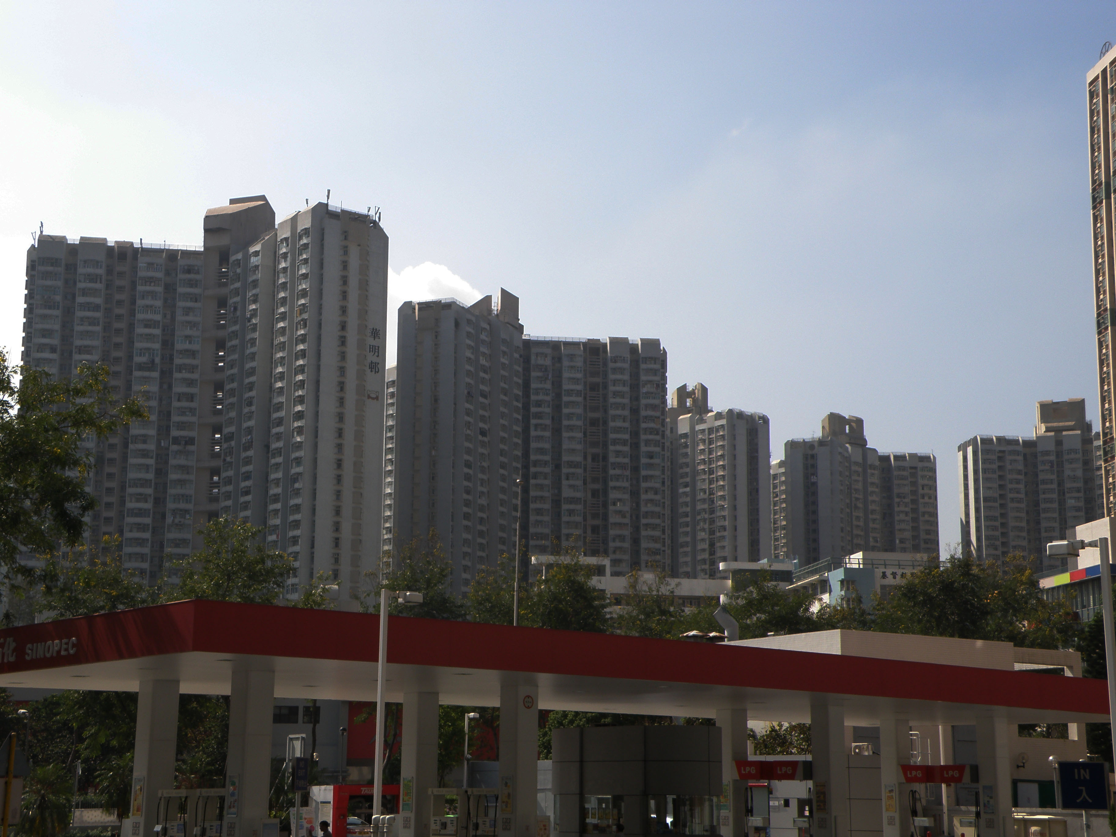 Wah Ming Estate in Fanling, Hong Kong.